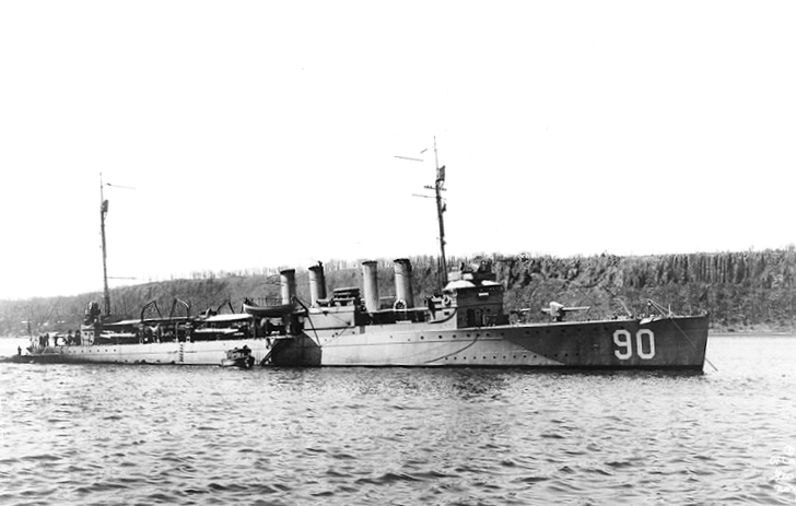 The U.S. Navy destroyer USS McKean (DD-90) photographed circa 1919.